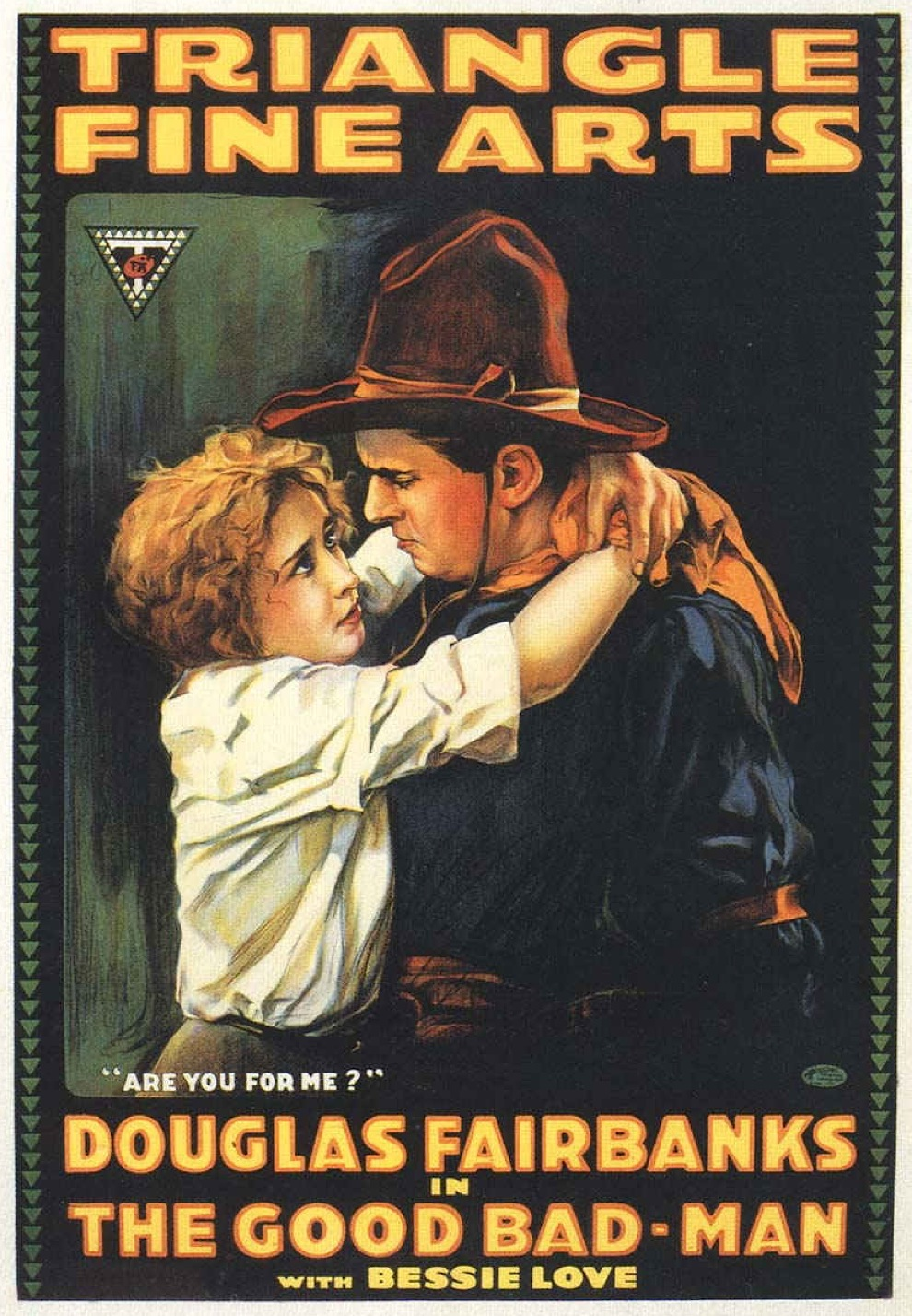 For article The Good Bad ManThis is a theatrical poster for the 1916 film The Good Bad Man, and was first published before 1923.